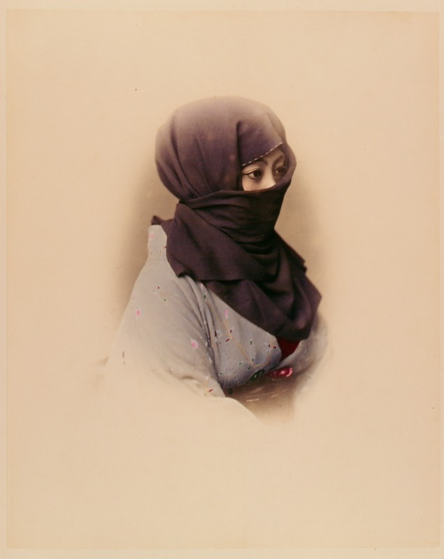 Photographie sur papier albuminé réhaussée de pigments - 19.5 x 24 cm